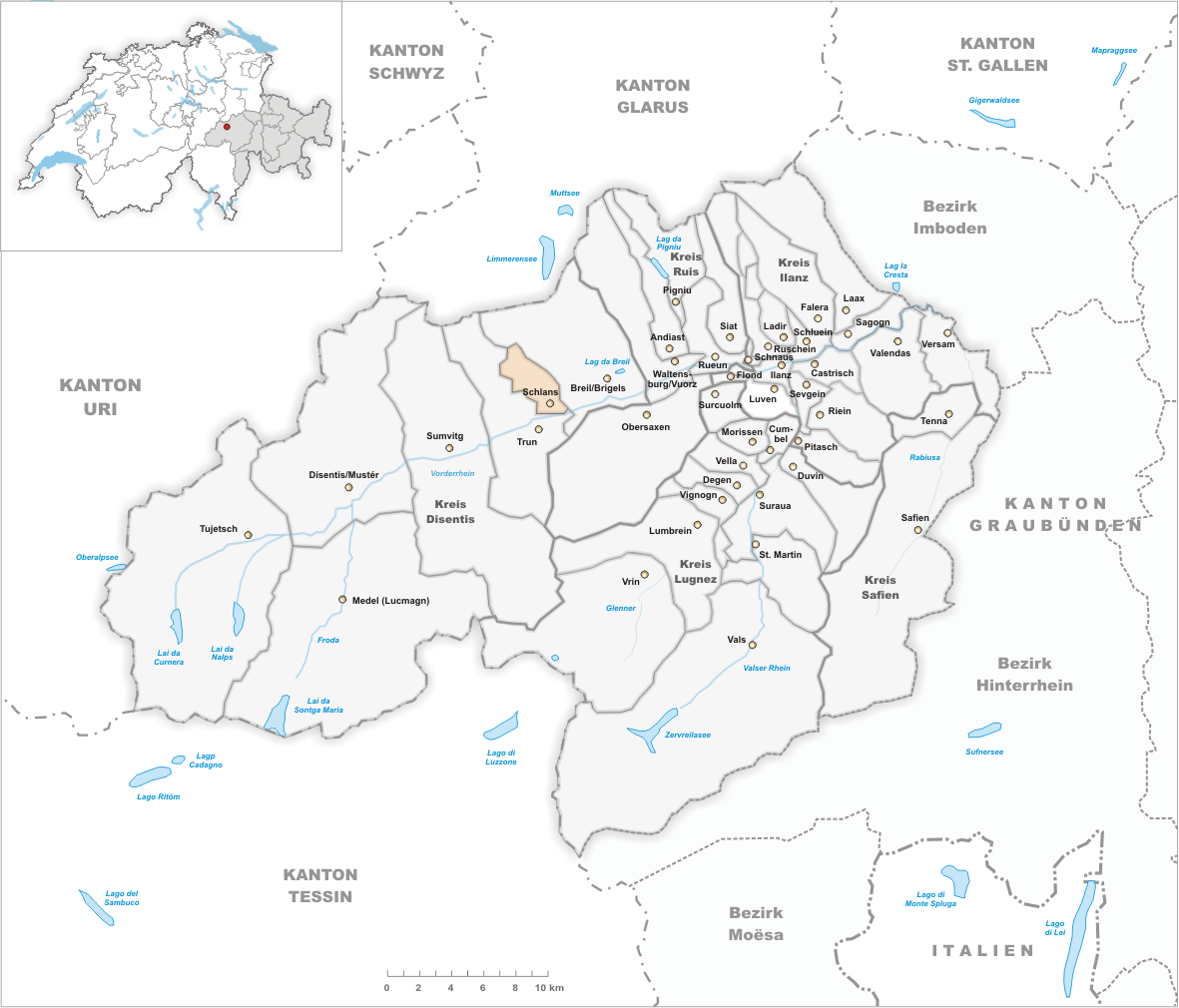 Municipality Schlans